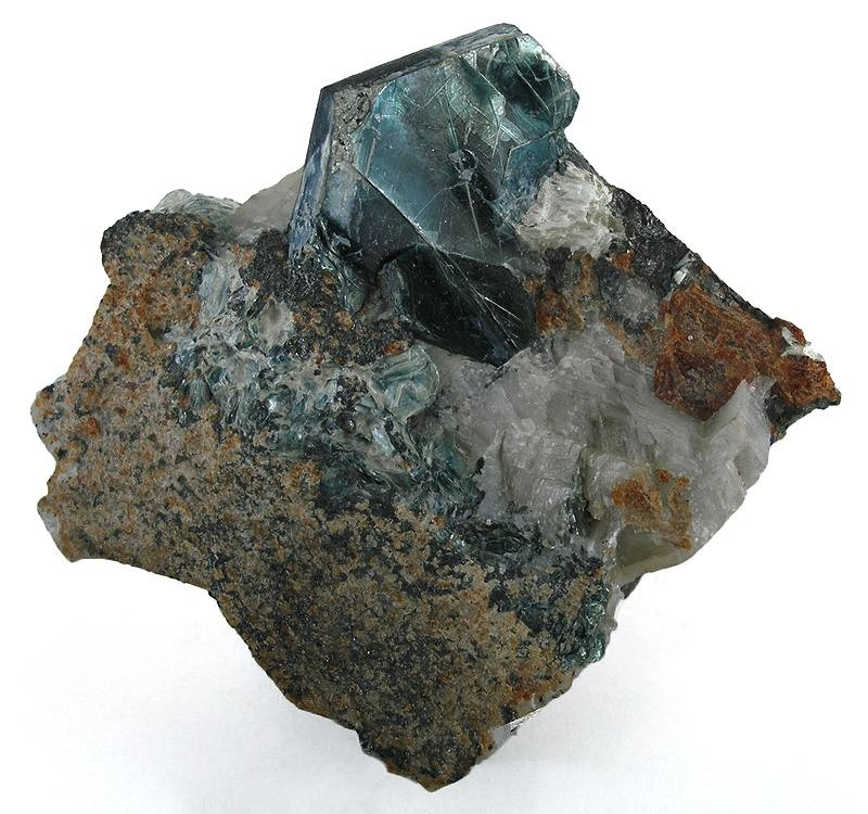 Clinochlore Locality: Tilly Foster mine, Brewster, Putnam County, New York, USA (Locality at ) Size: 8.4 x 7.9 x 3.5 cm. This is a significant, and surprisingly attractive, specimen of clinochlore from the old Tilly Foster Mine, a large iron ore (magnetite) deposit discovered in 1810. The mine was 600 feet deep in 1879. Mining ceased in 1897, after 13 miners were killed in a rockslide. Specimens today are obviously hard to come by. Usually, you get chondrodite, and a few other species like clinochlore as mere associations. However, here it is definitely the dominant species, in a really nice, 3.2 x 2.5 x 0.6 cm, freestanding, crystal. It is easy to see the metallic green color. Ex. Dennis Mullane Collection.